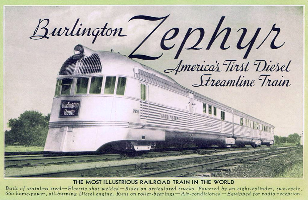 Postcard photo of the Pioneer Zephyr.